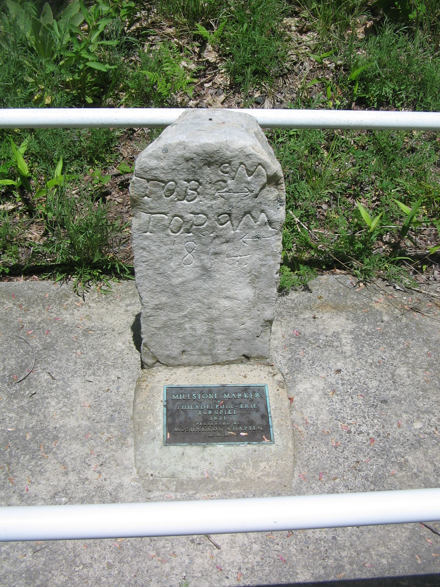 1821 Mile Marker on PA Route 504 at Black Moshannon State Park, near Phillipsburg, Rush Township, Centre County, Pennsylvania, USA.